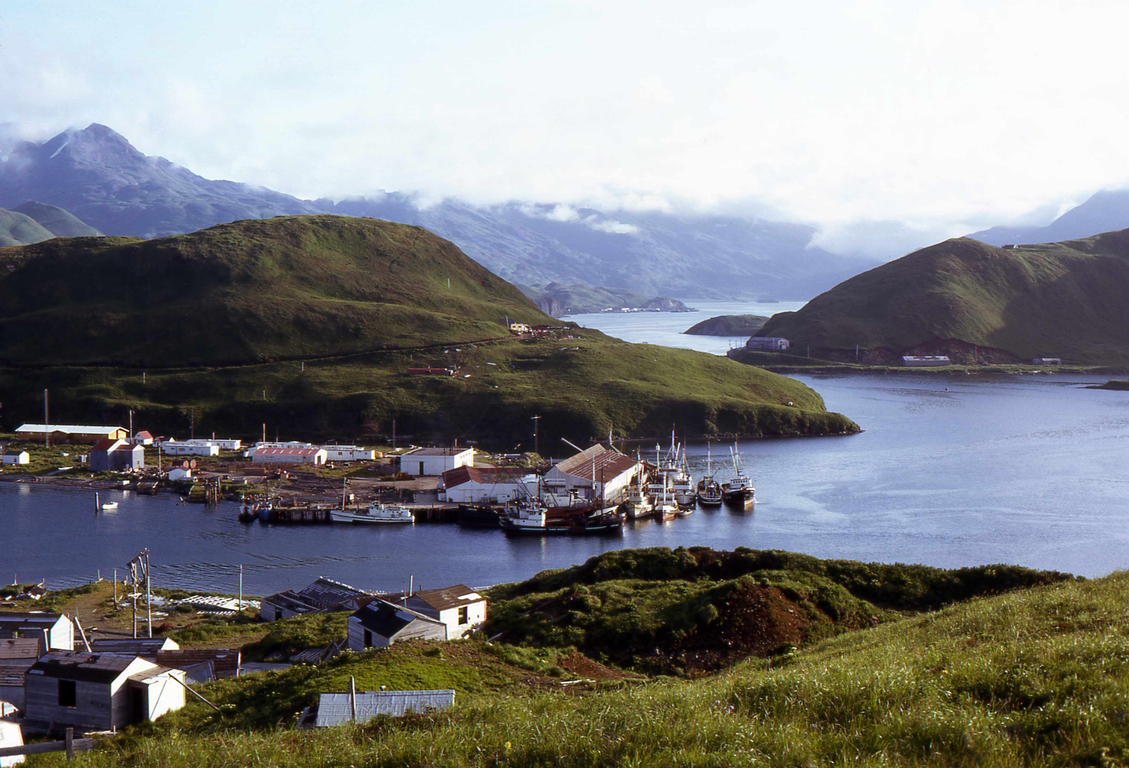 United States of America United States of America, Alaska. The East Channel separates Unalaska Island, with the fishing boats berthed, from Amaknak Island. On the right side is Iliukliuk Harbor, the South Channel and Captains Bay in the background. The picture is taken from a hill on Amaknak Island.